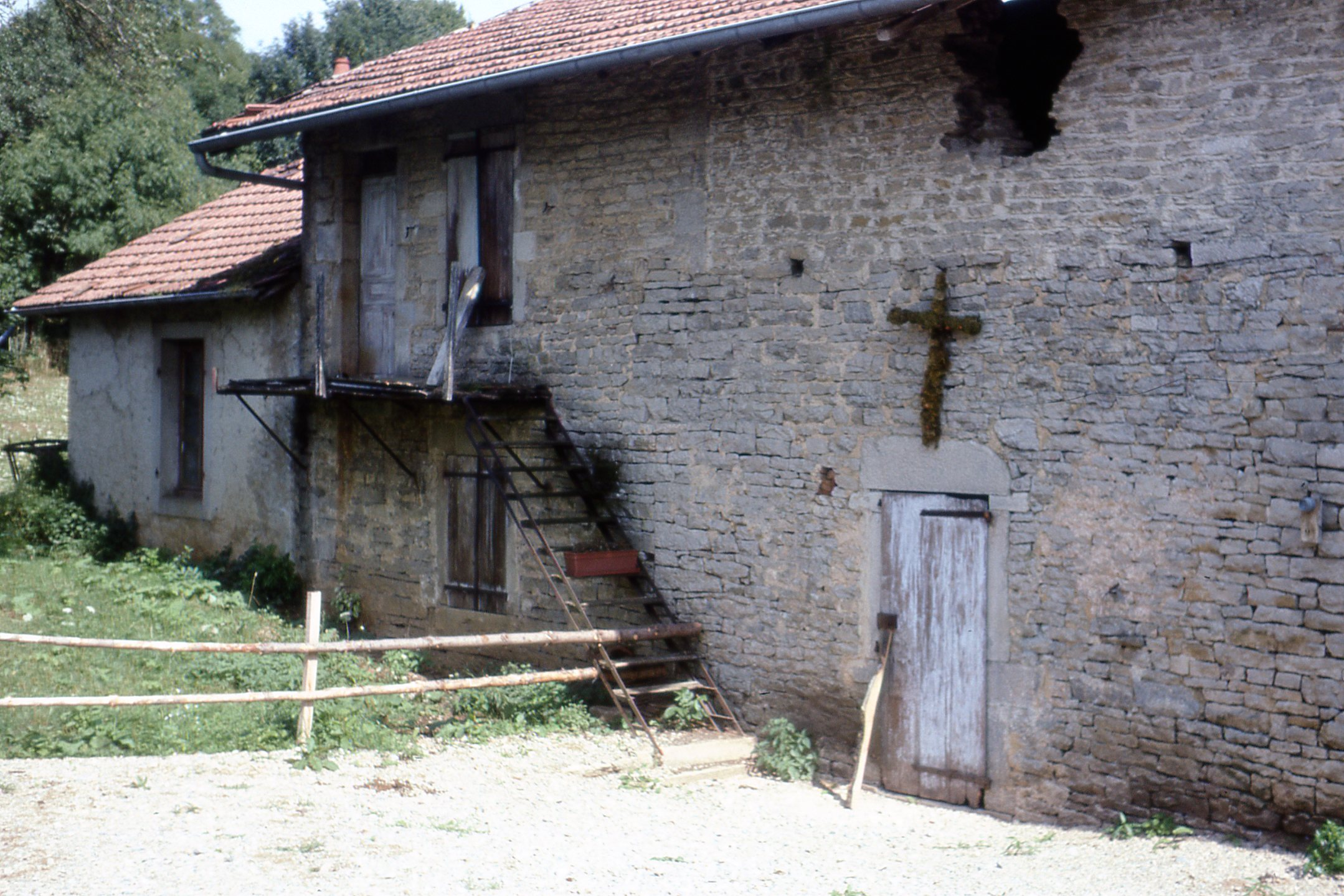 St Pierre-François Néron's birth place